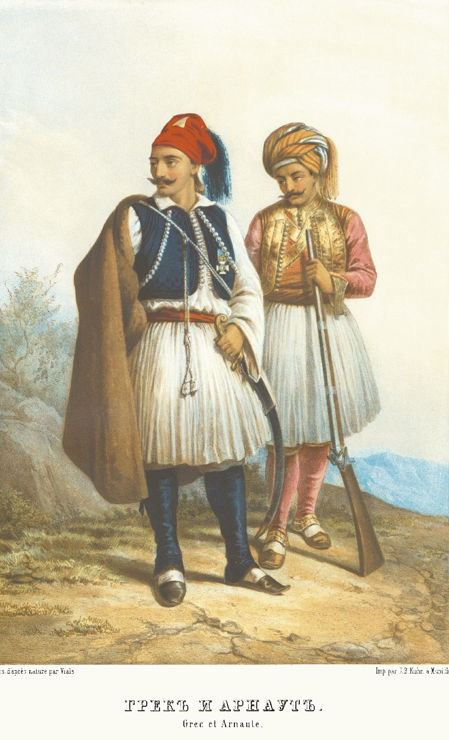 Greek and Arnaut wearing the Fustanella costume Russia, from the book entitled 'Ethnographic description of the peoples of Russia' 1862